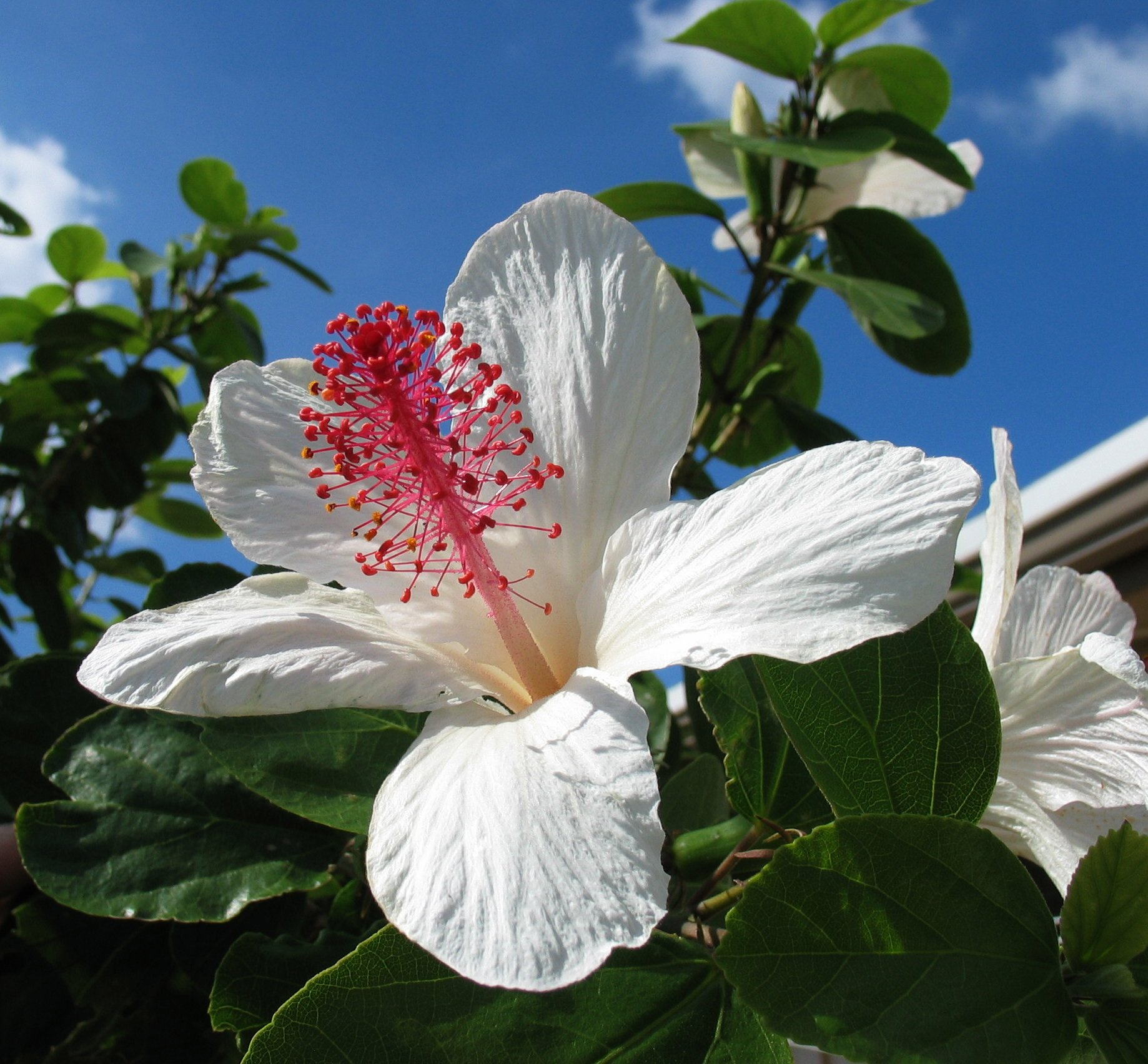 Kokiʻo keʻokeʻo or Kauai white hibiscus Malvaceae Endemic to the Hawaiian Islands (Kauaʻi only) Oʻahu (Cultivated) The two native Hawaiian white hibiscuses, Hibiscus arnottianus and H. waimeae, are the only known species of hibiscuses in the world known to have fragrant flowers! NPH0005